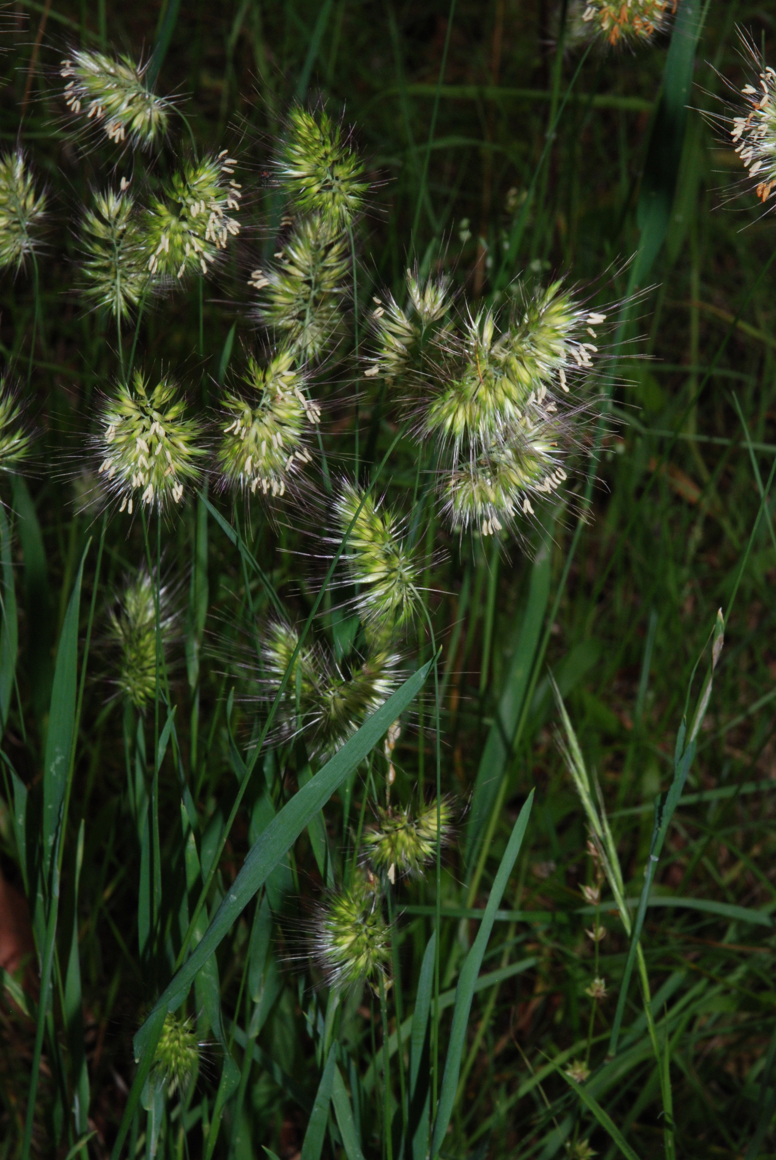 Cynosurus echinatus, Roadside Near Cubo de la Galga, La Palma, Spain